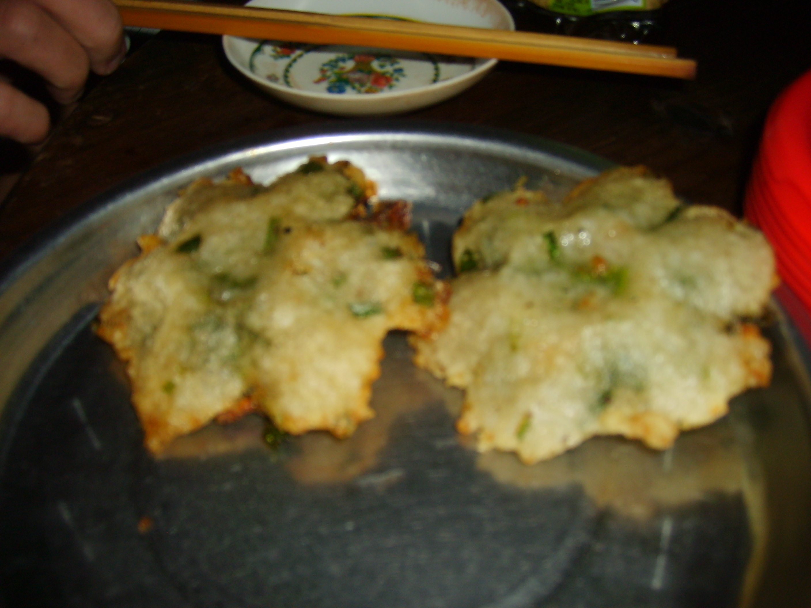 Fried dough foods at Huian, Fujian, China